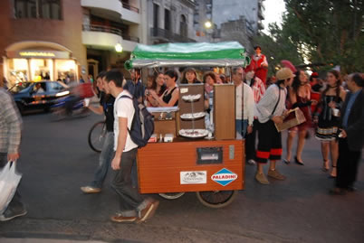 "Carro de las inauguraciones" en 4sar08